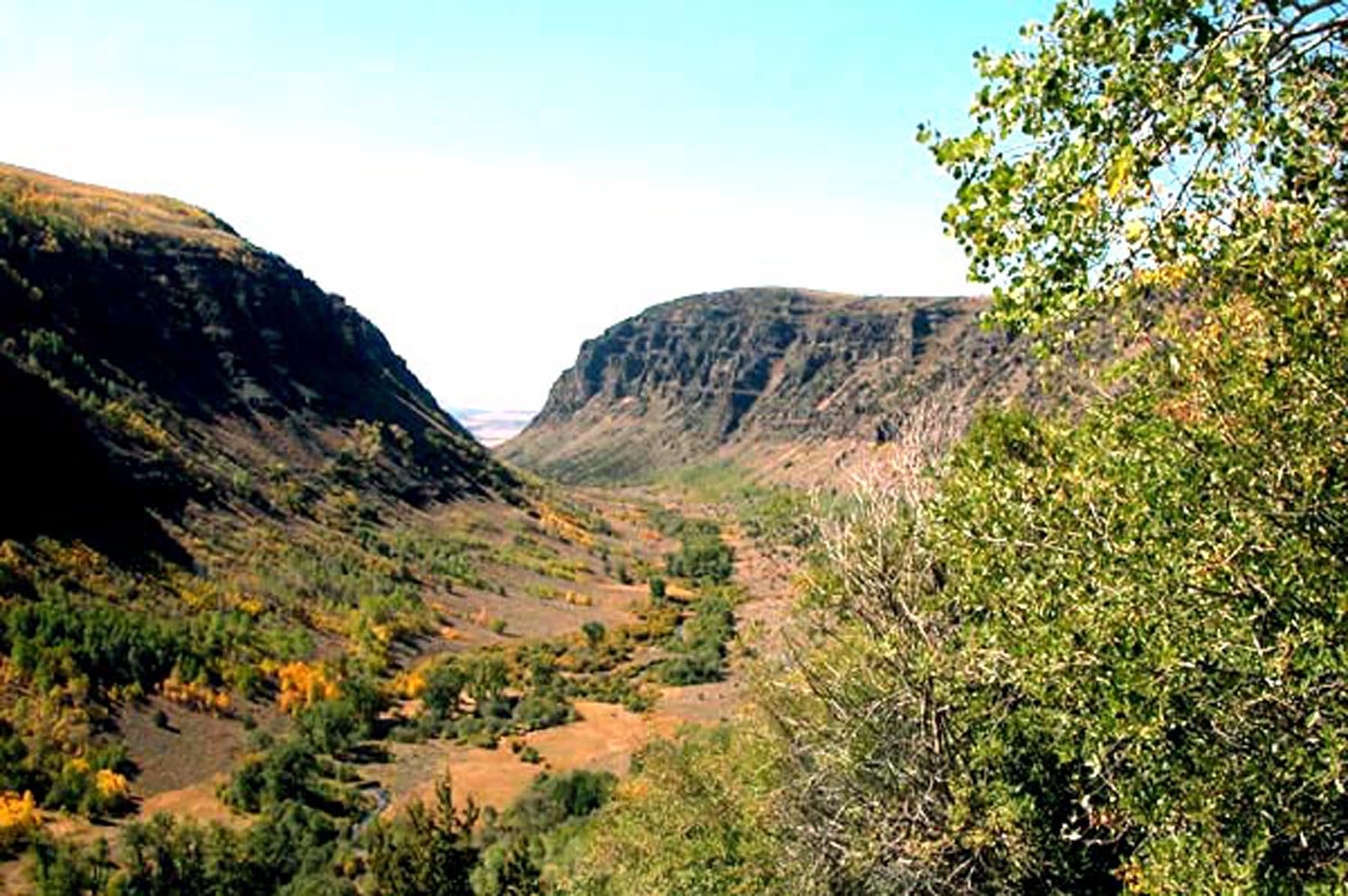 Little Blitzen Gorge, with the little Little Blitzen River, in Harney County, Oregon, USA. From the U.S. Bureau of Land Management website, "During the Ice Age, glaciers formed in the major stream channels on the mountain. These glaciers dug trenches about one-half mile deep, through layers of hard basalt. The result was four immense U-shaped gorges – Kiger (JPG), Little Blitzen (JPG), Big Indian (JPG), and Wildhorse (JPG)."